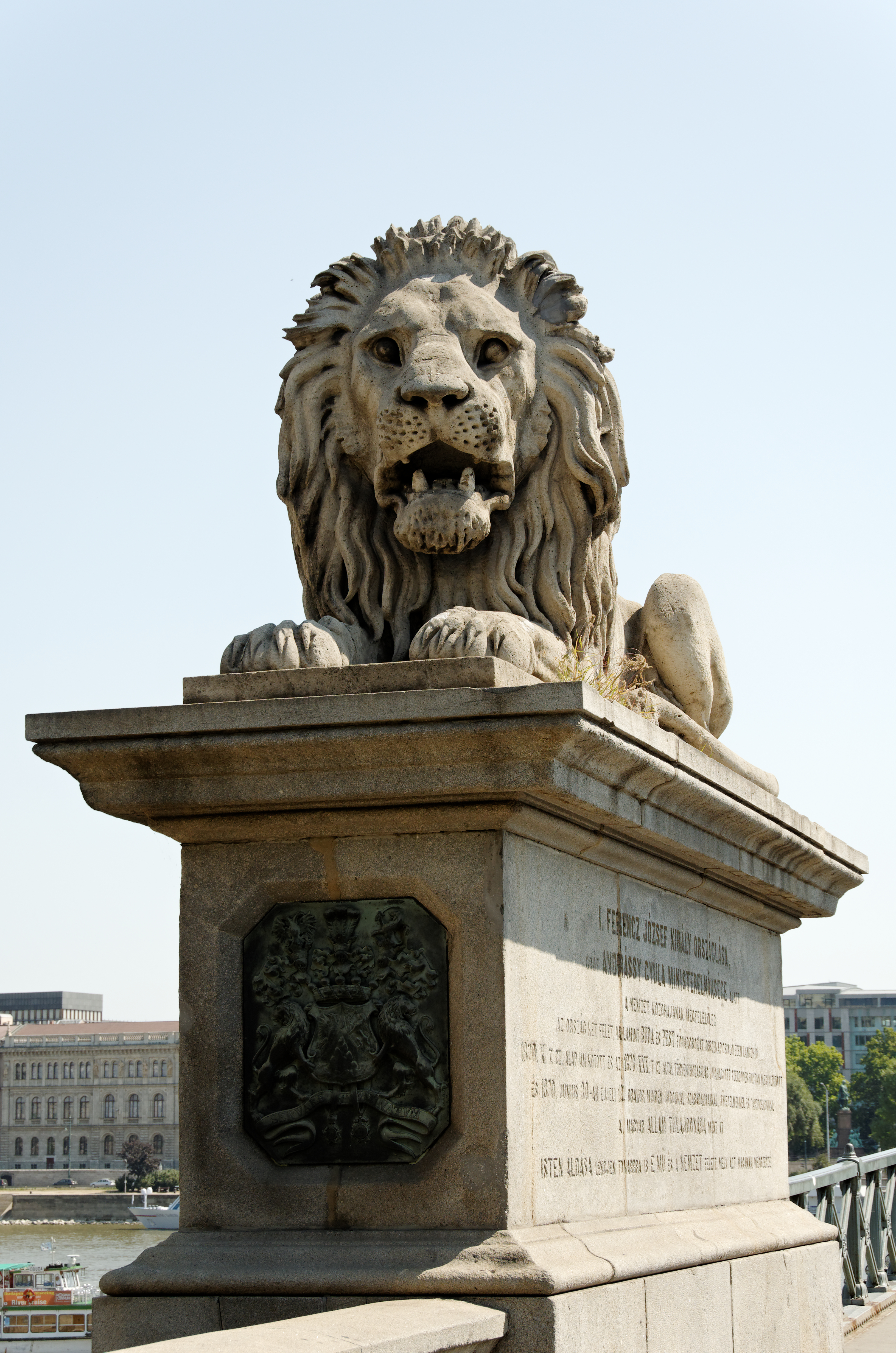 A lion on the Chain Bridge, Budapest